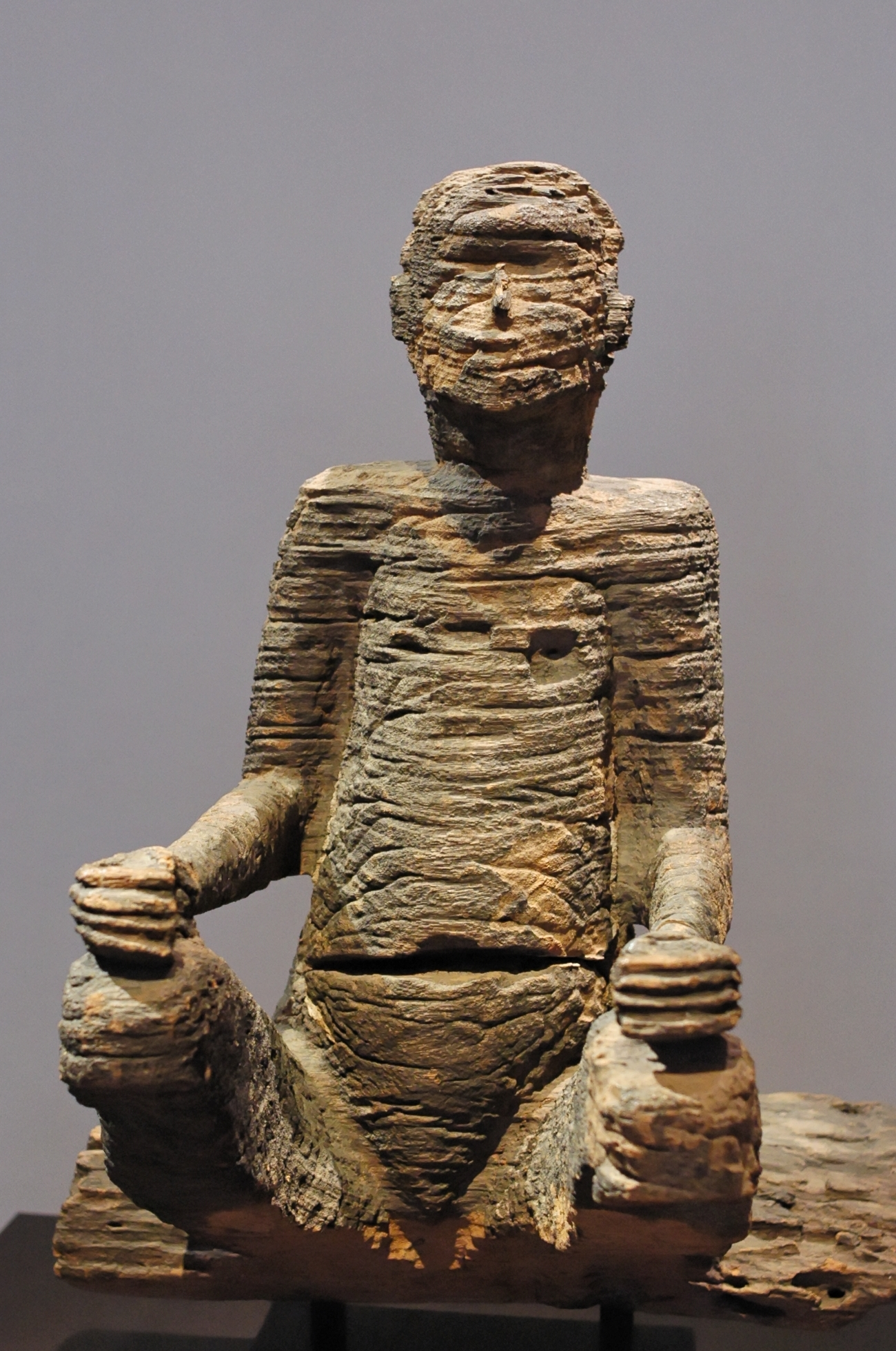 Mbembe sculpture, drum end. Wood, Nigeria, 18th century.